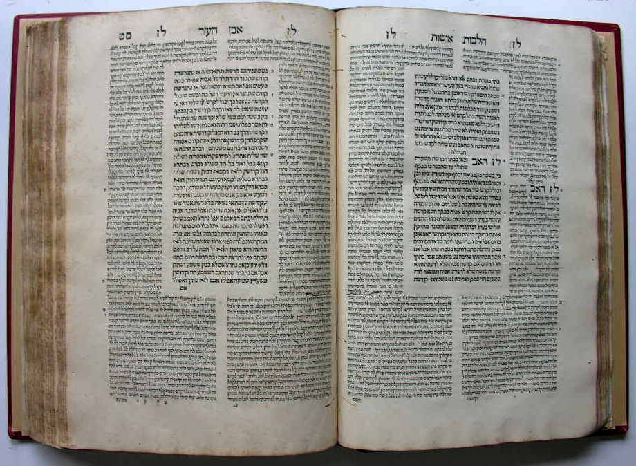 R. Jacob b. Asher (Tur): Even ha-Ezer, part III of Arba'ah Turim. Printed in Venice in 1565.